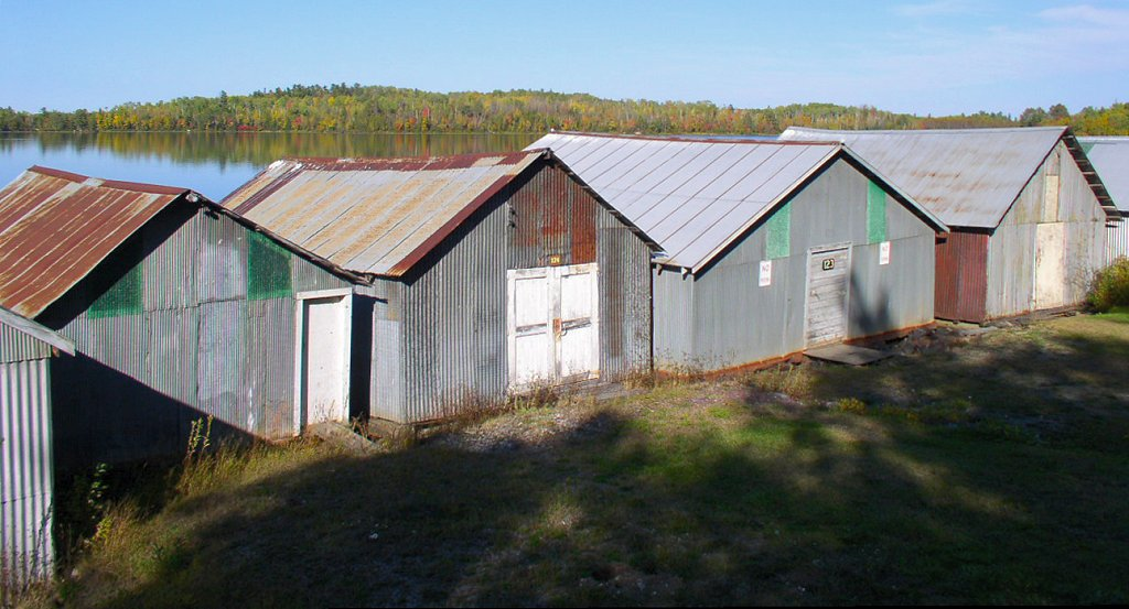 Stuntz Bay Boathouses on Lake Vermilion, Soudan Underground Mine State Park, Minnesota, USA